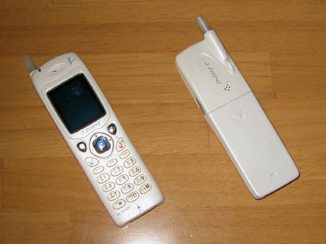 J-PHONE J-SH03 (Sirius white) (Composite picture)